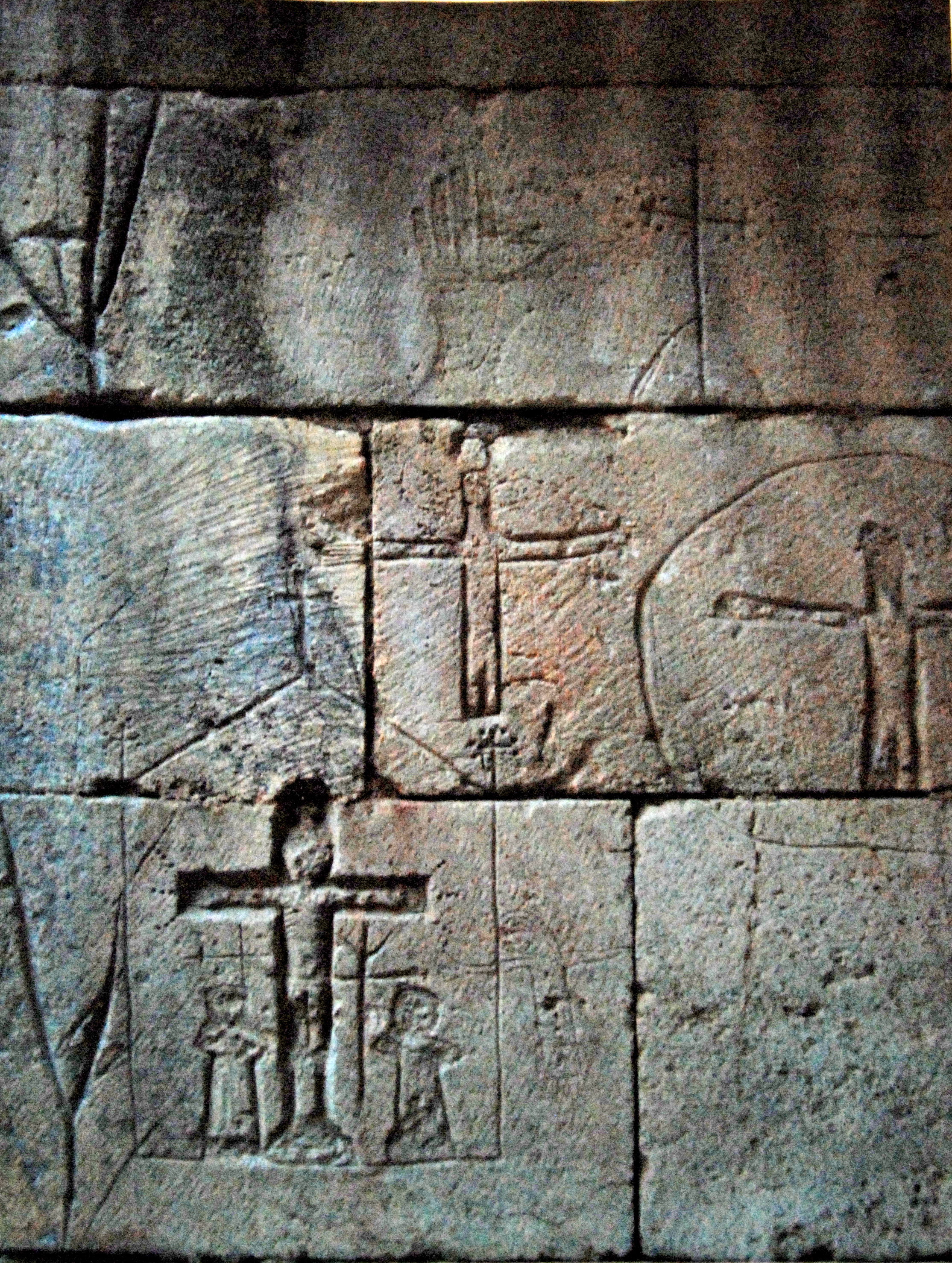 Domme, graffiti in the Templars' prison